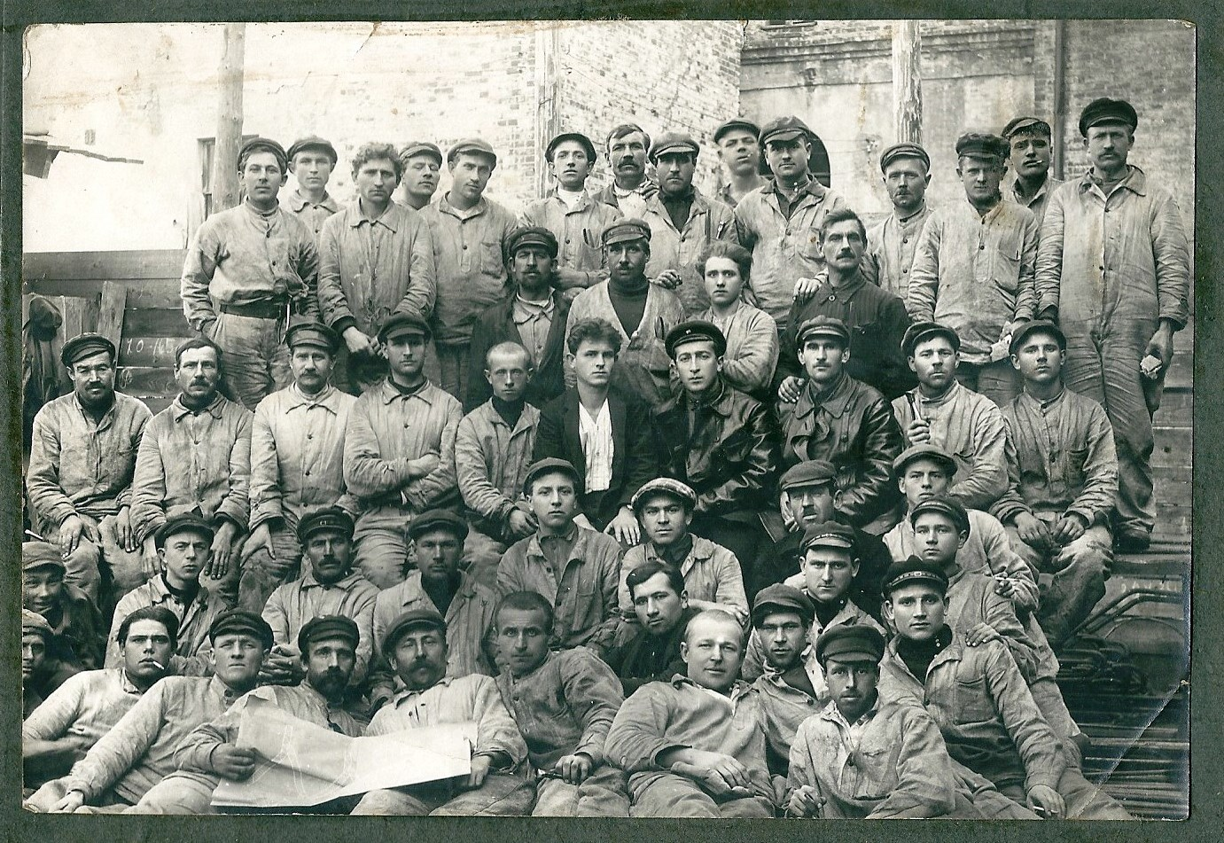 Central telegraph building. Moscow. Construction workers. 4.09.1926